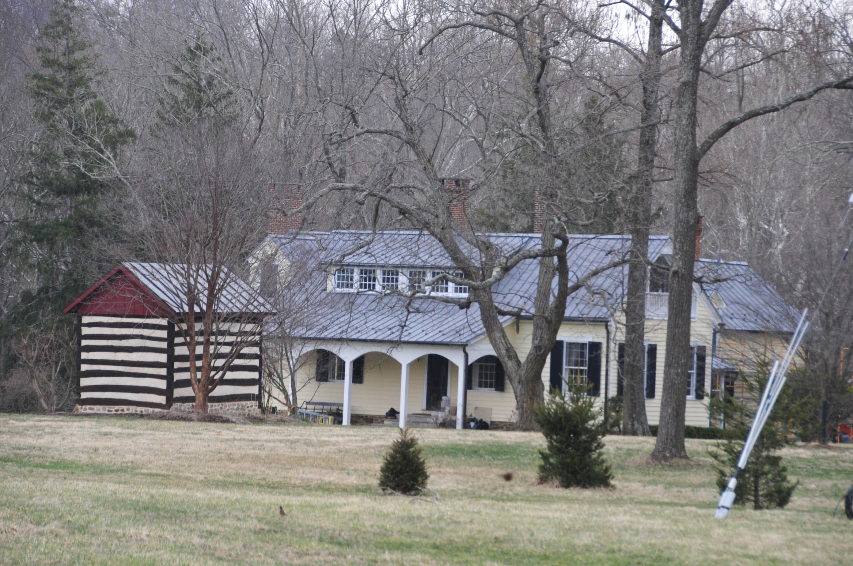 THE DISTRICT CONTAINS A VARIETY OF STONE, BRICK, LOG AND FRAME DWELLINS WHICH DATES FROM THE 1750s TO 1938.